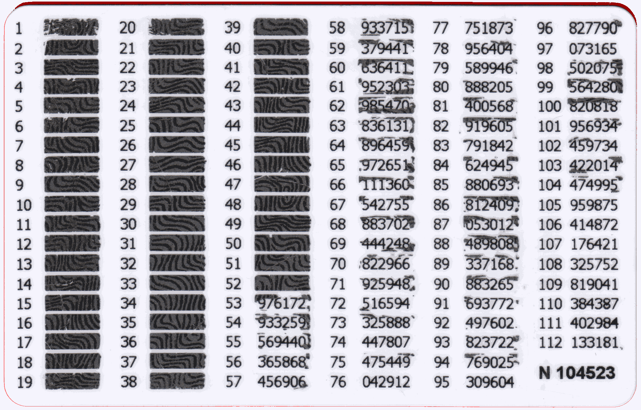 A plastic card with one-time passwords used for on-line banking. Passwords (originally hidden) that are already used were revealed by scratching. Scanned, 600 dpi